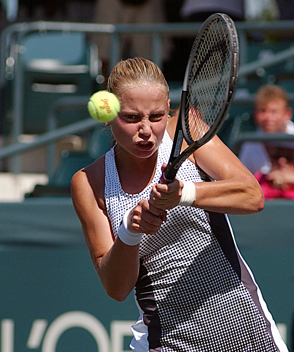 Tennis champion Jelena Dokic, of Yugoslavia, returns a serve to Anna Smashnova 6-1, 6-3 at the Family Circle Cup Tennis Tournament on Daniel Island in Charleston, South Carolina.